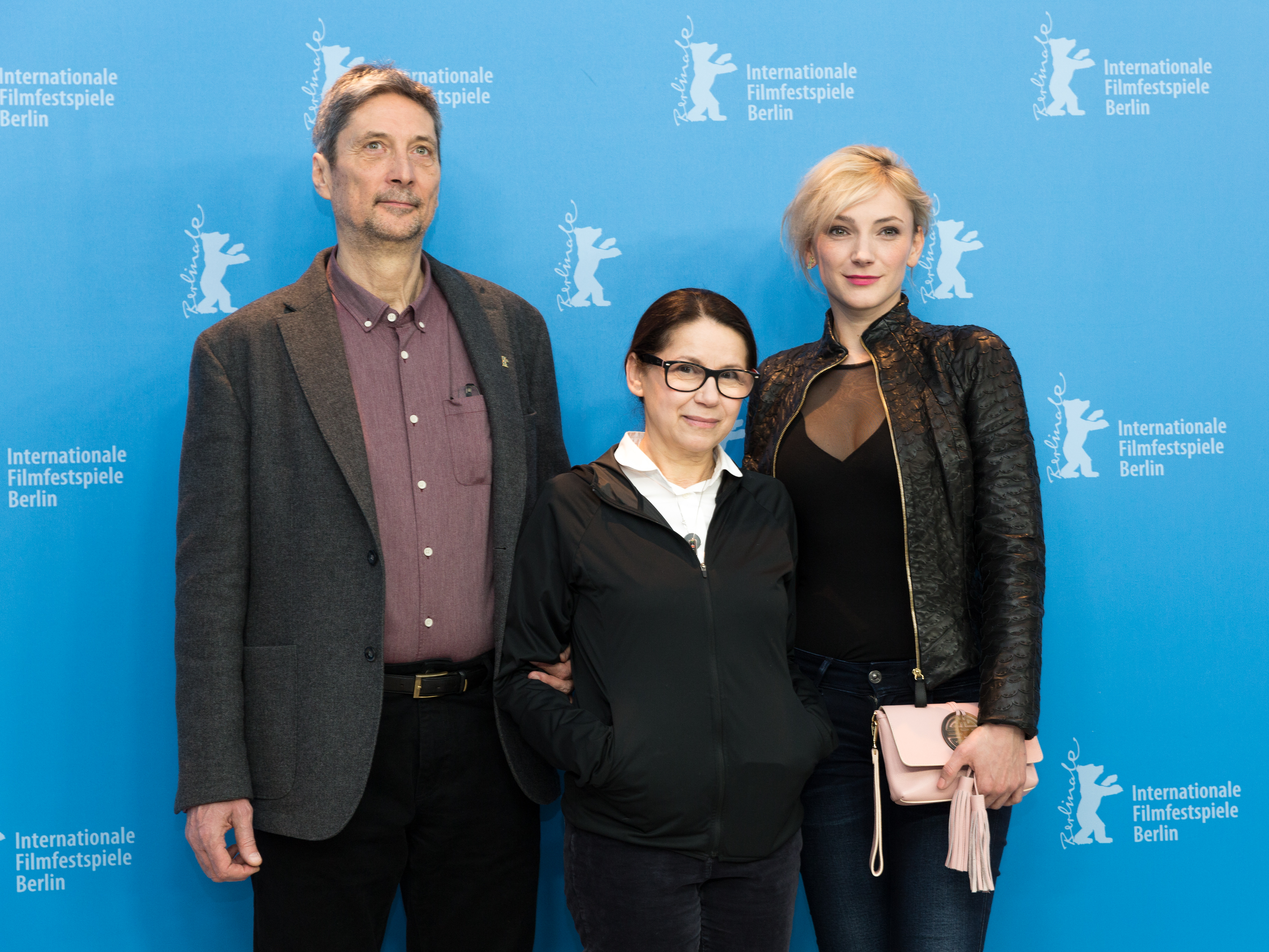 The film team of On body and Soul (Testről és lélekről) at the Berlinale 2017